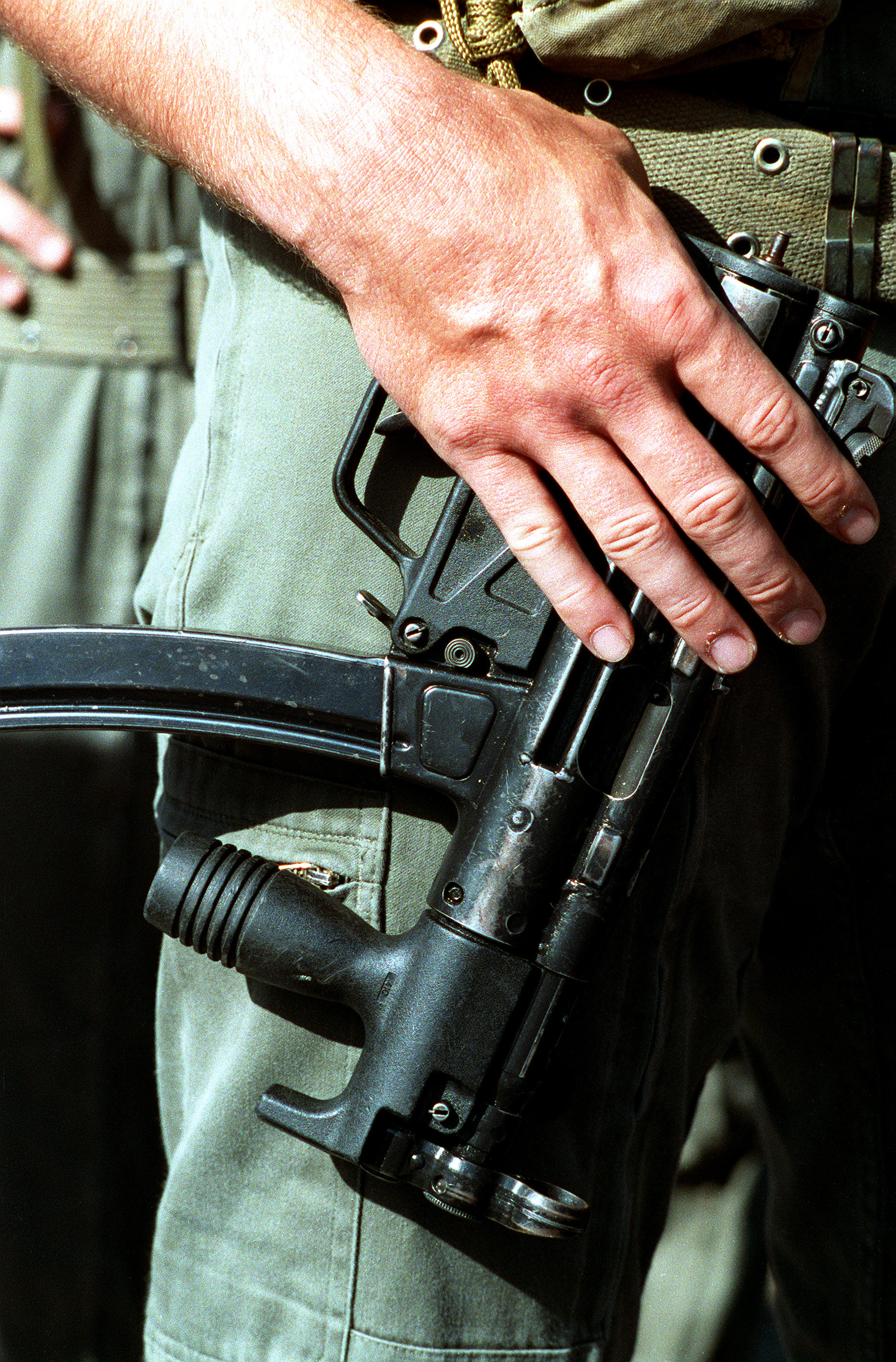 A close-up view of the MP-5K submachine gun carried by a boarding team member aboard the French destroyer Jean de Vienne (D-643). The Jean de Vienne is one of the ships of the Maritime Interdiction Force (MIF), which was formed during Operation Desert Shield to enforce U.S. trade sanctions against Iraq. (Released to Public)